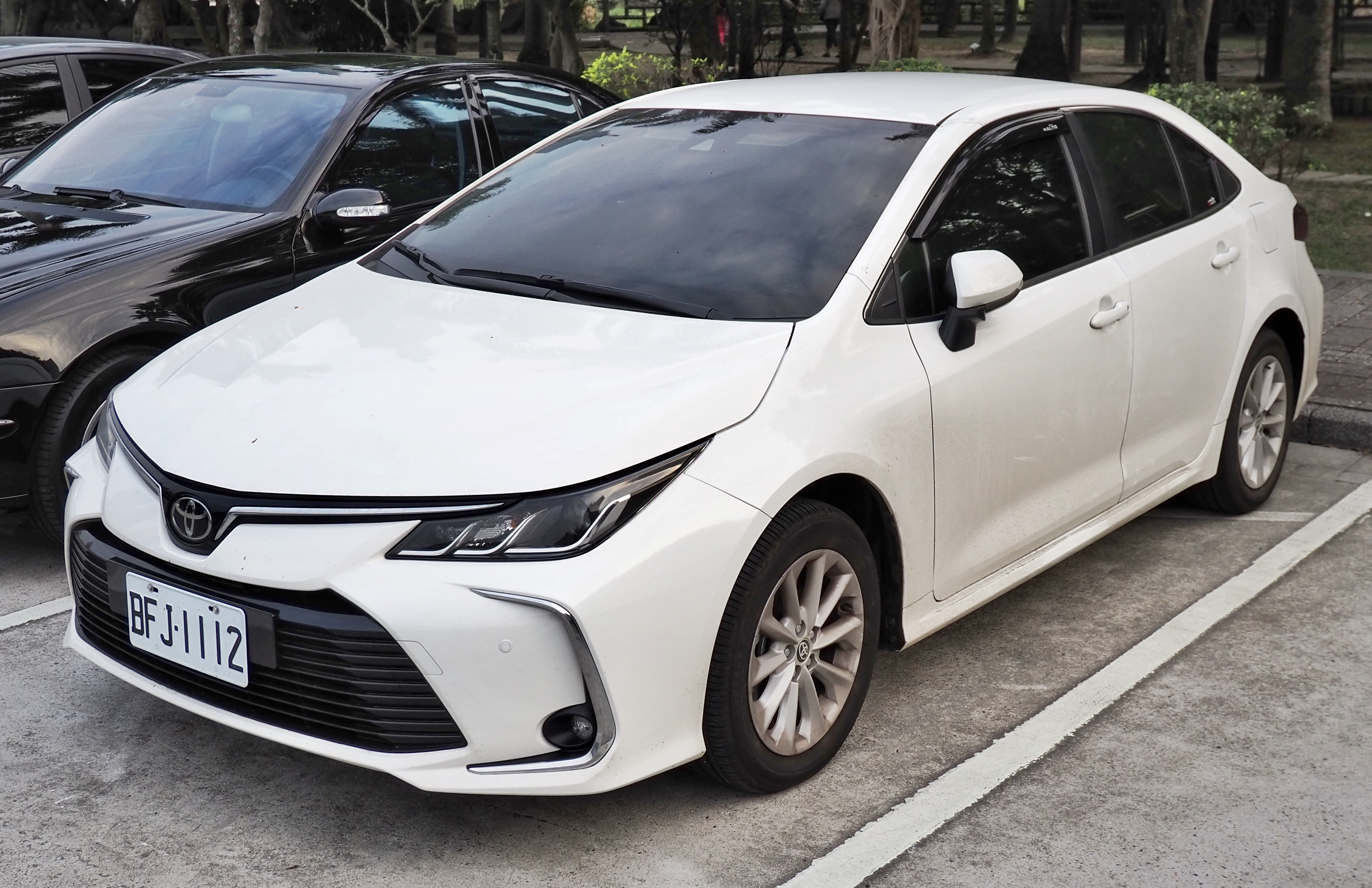 A 2019 Toyota Corolla Altis photographed in Xinyi District, Taipei, Taiwan 中文（台灣）: 一輛2019年的豐田卡羅拉Altis，拍攝於台灣台北市信義區。